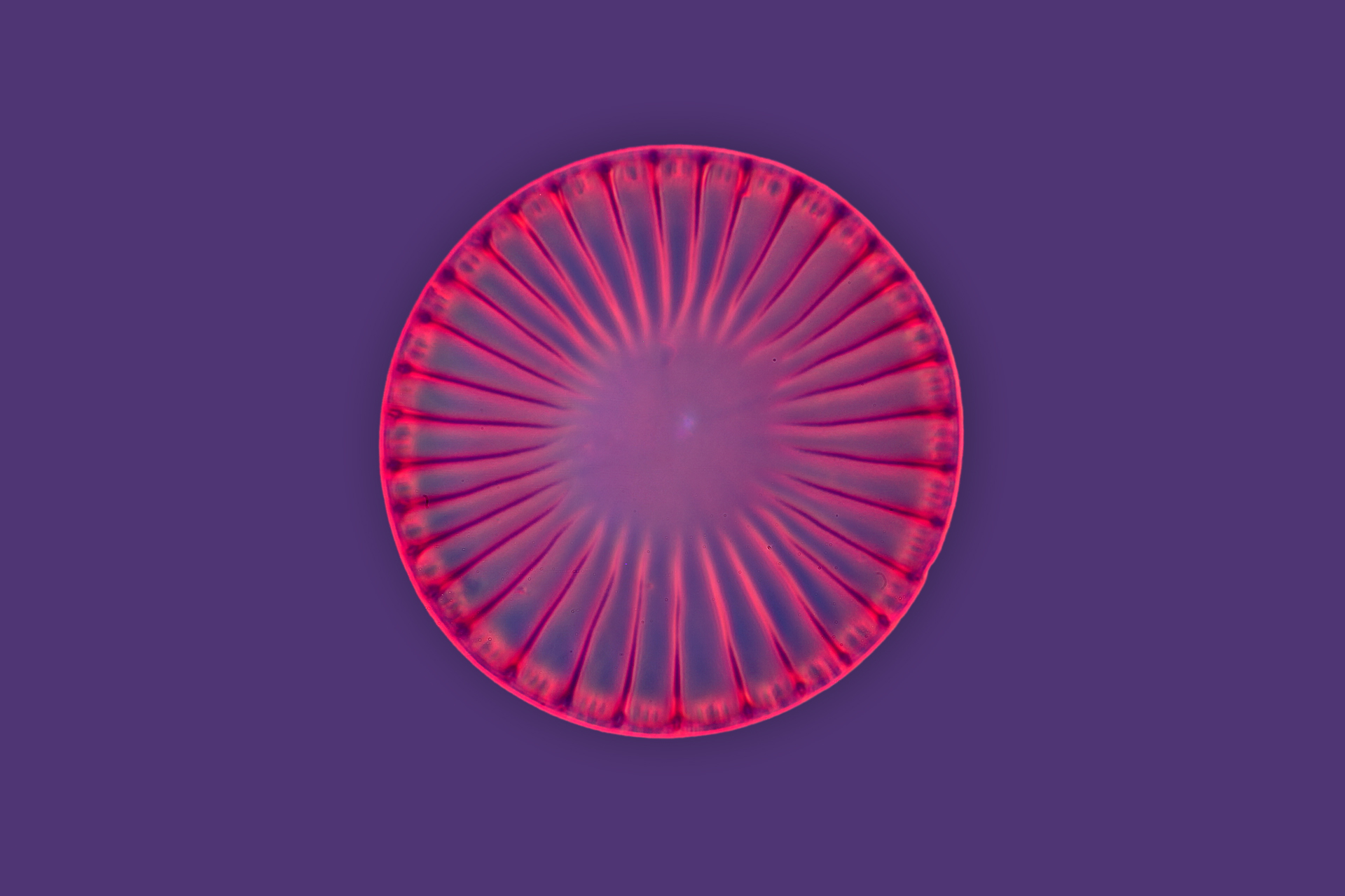 Microscopic Photography of a Diatom with Rheinberg Illumination.